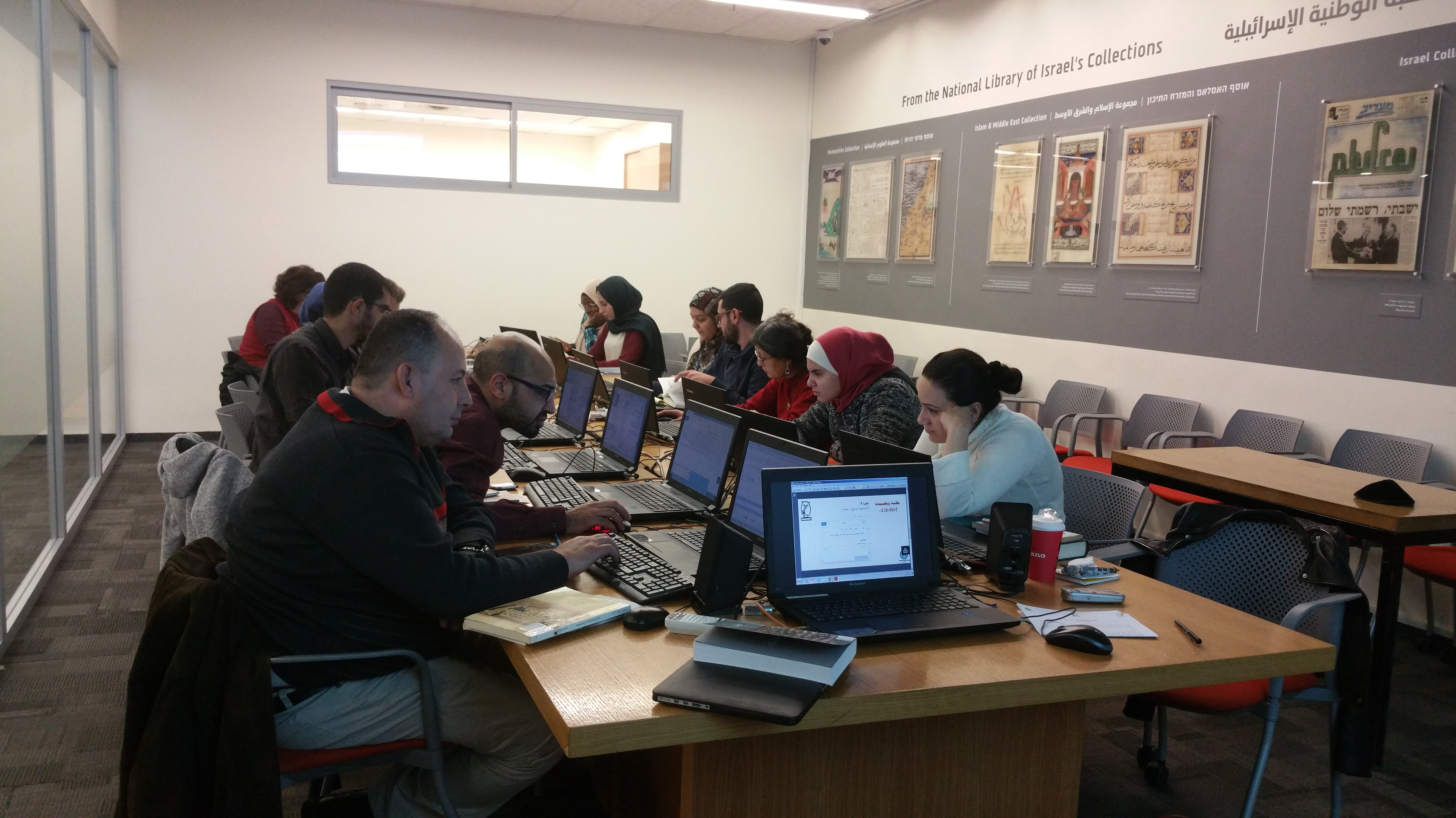 أمينات وأمناء مكتبات في ورشة الاستشهاد بالمراجع، المكتبة الوطنية في القدس، يناير 2018 تنظيم: جمعية ويكيميديا إسرائيل Librarians participate in the #1Lib1Ref workshop organized by Wikimedia Israel at the National Library of Israel, January 2018